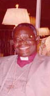 Peter Jasper Akinola, Anglican Primate of Nigeria Wikipedia received permission from the Anglican Church in Nigeria to publish their photos under the GFDL.